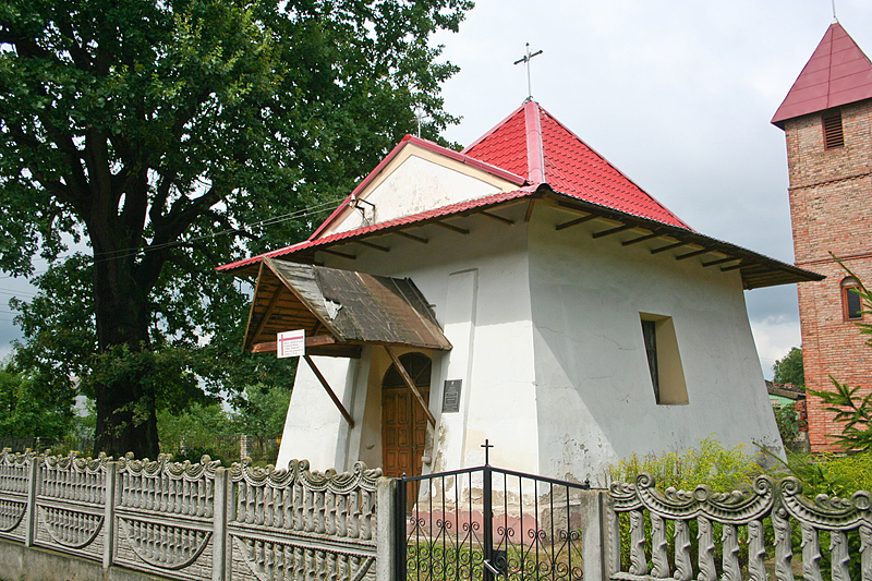 Catholic chapel (former dominican chapel)